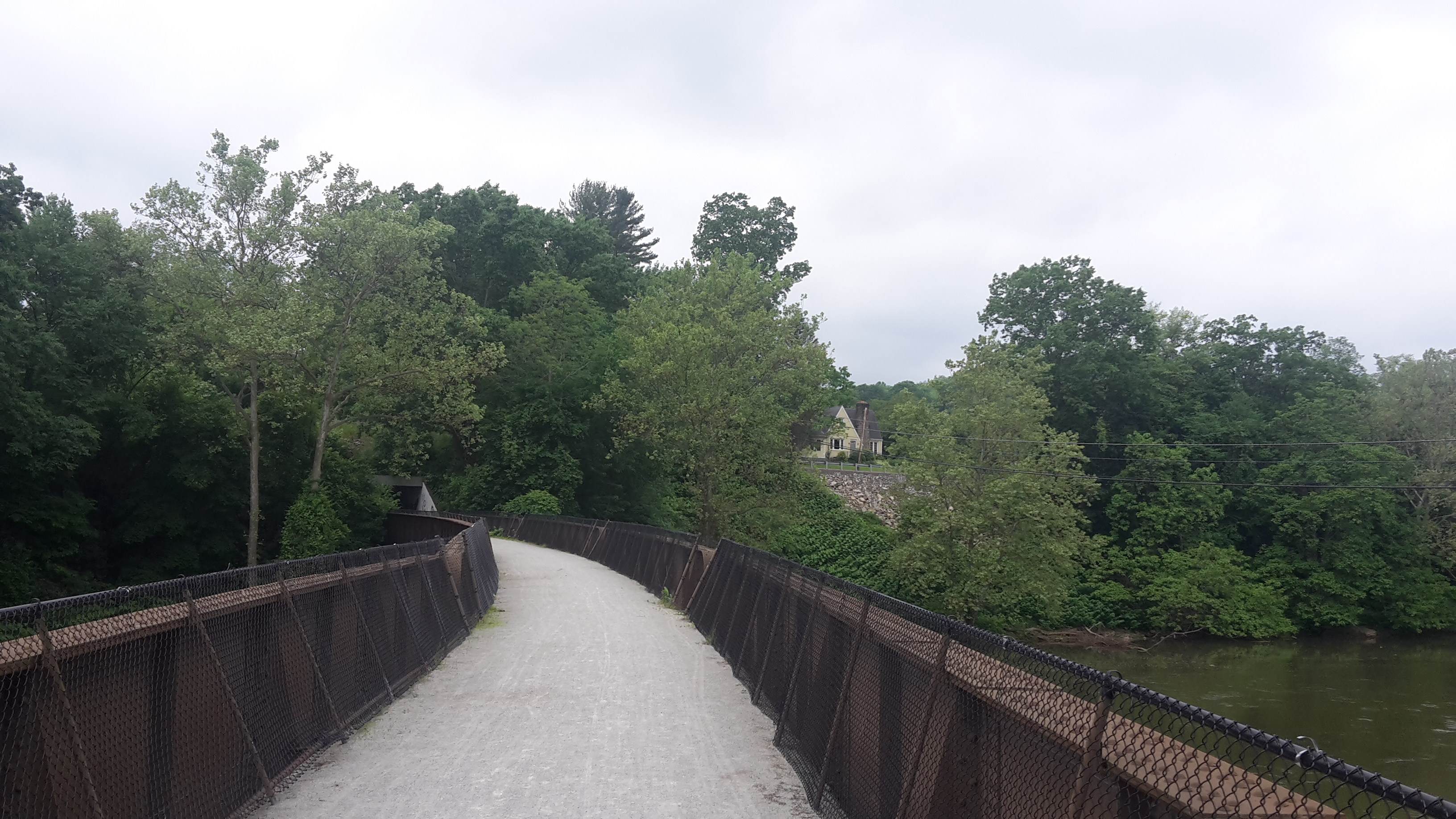 The Westmoreland Heritage Trail crosses over the Conemaugh River and under PA Route 981 near Saltsburg, PA